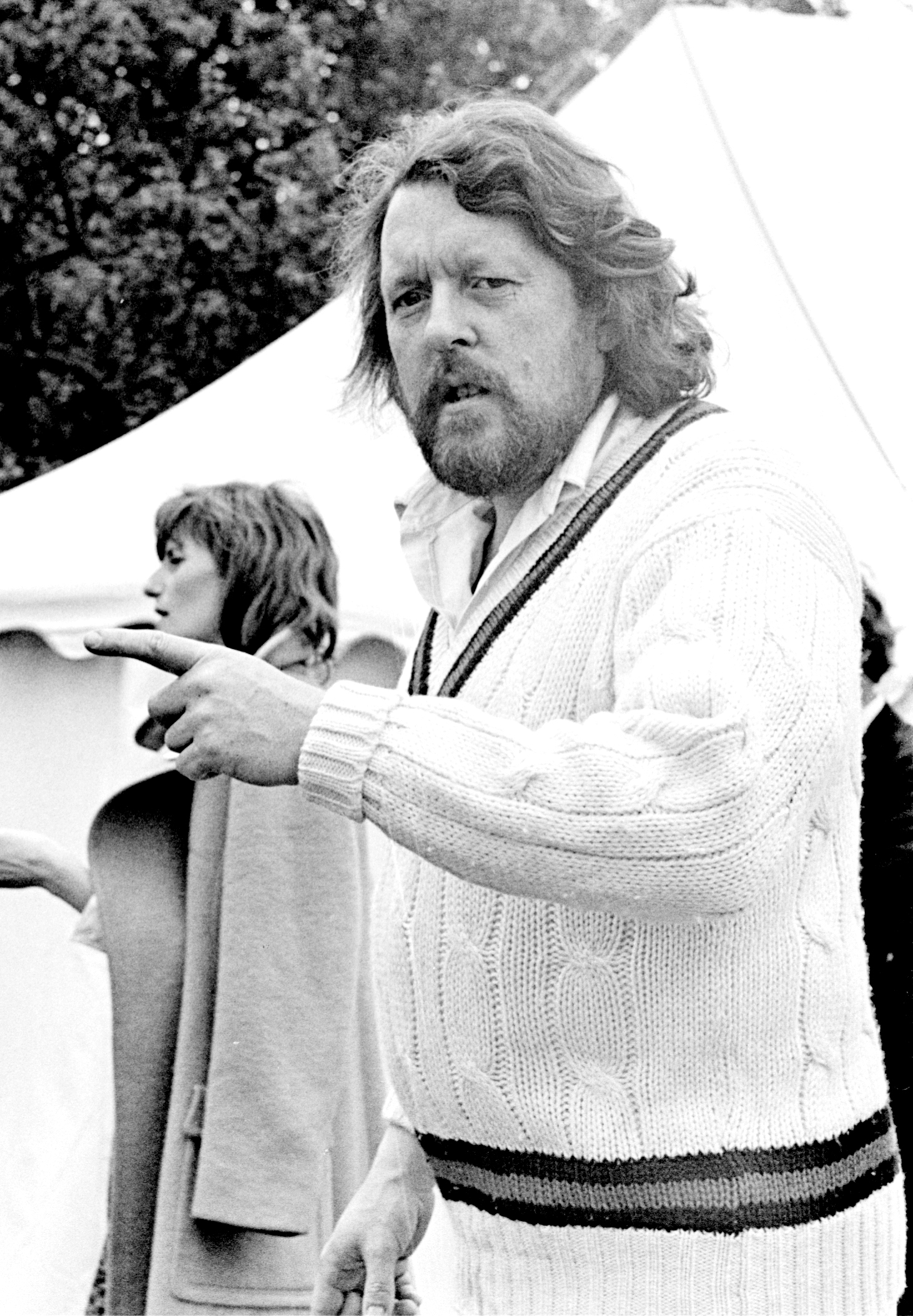 A photo of Willie Rushton, taken by Keith Lawson, at a charity cricket match in the grounds of Blenheim Palace, Oxfordshire